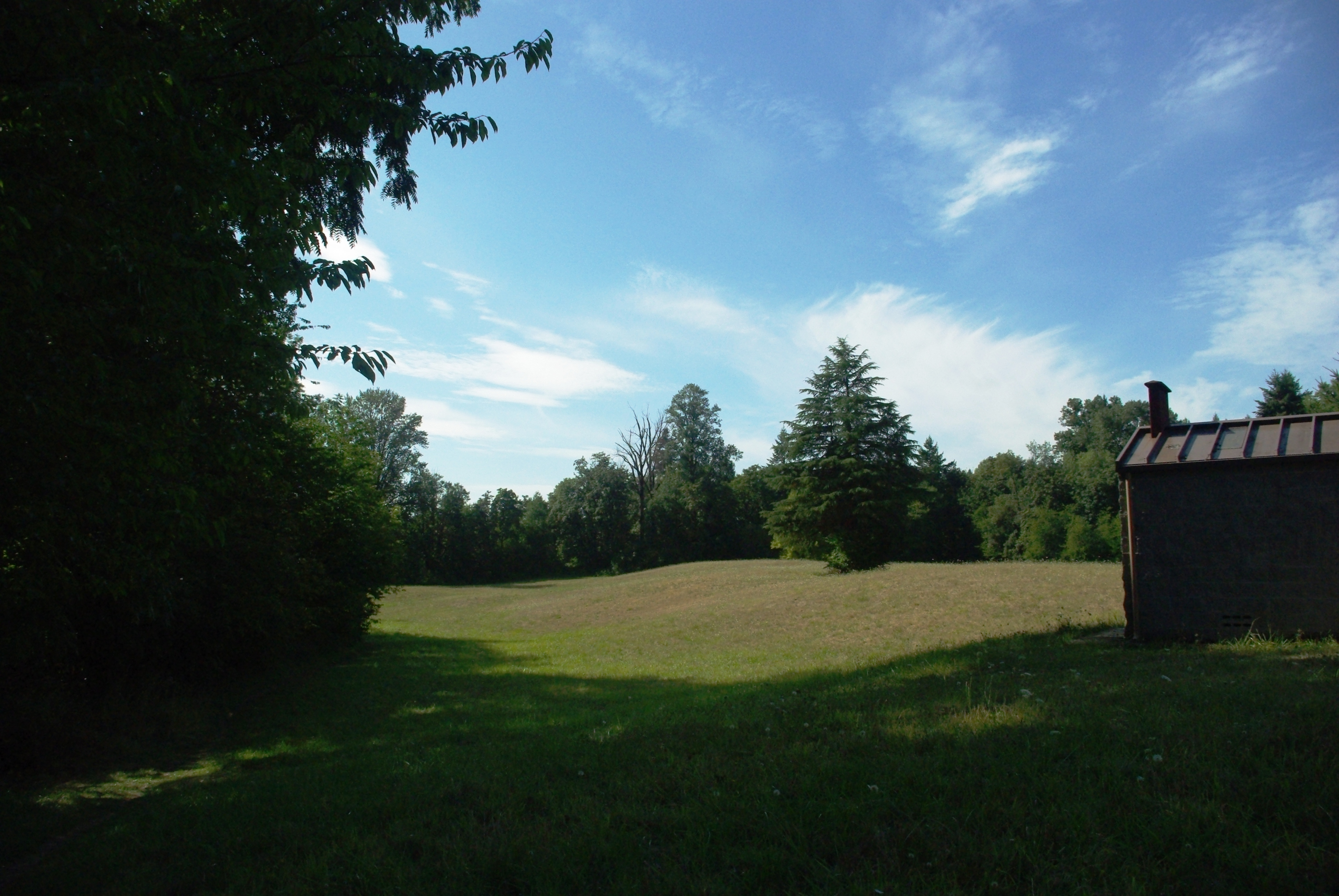 Parrot Mountain park, part of the Willamette Greenway.